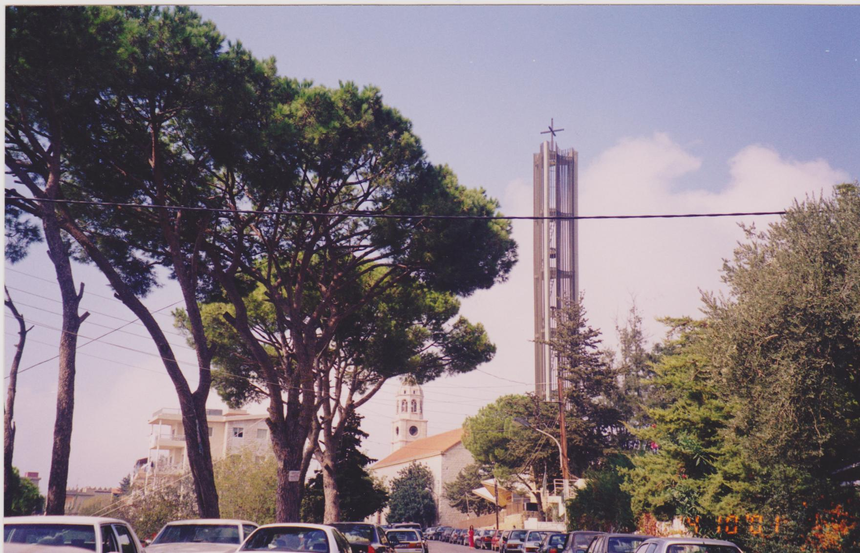 Brummana, Lebanon